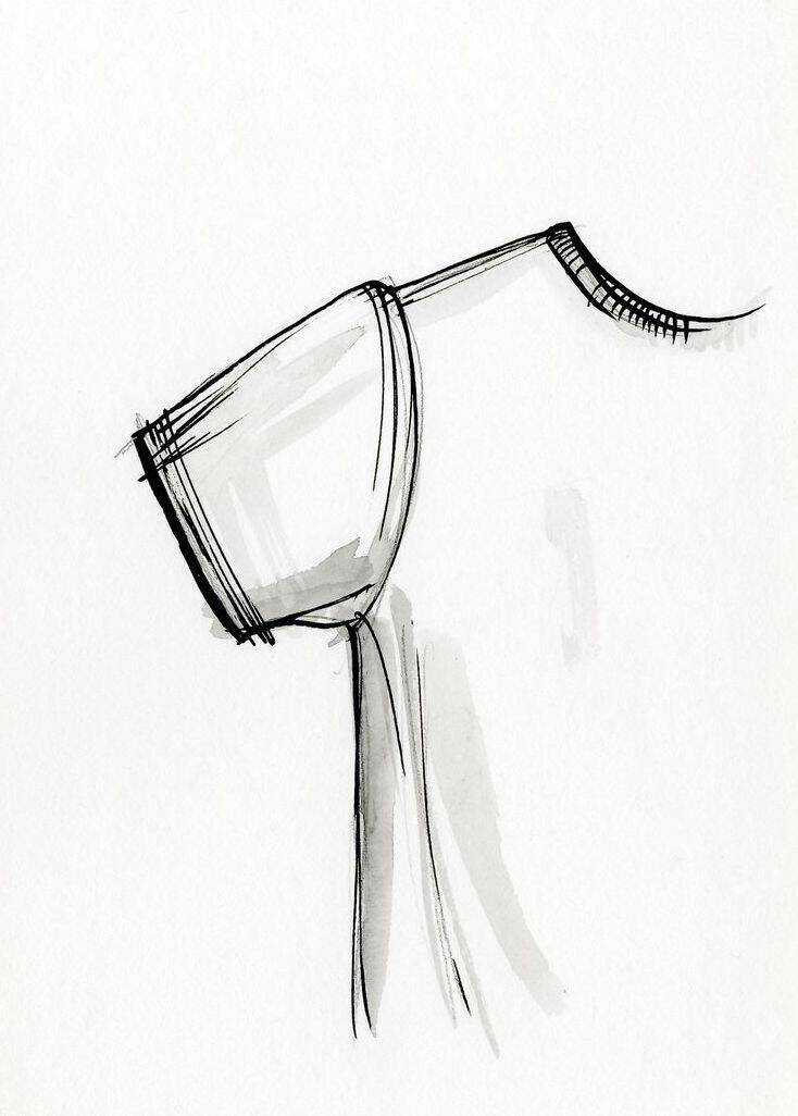 Drawing of the Thesaurus concept : 'short sleeve'